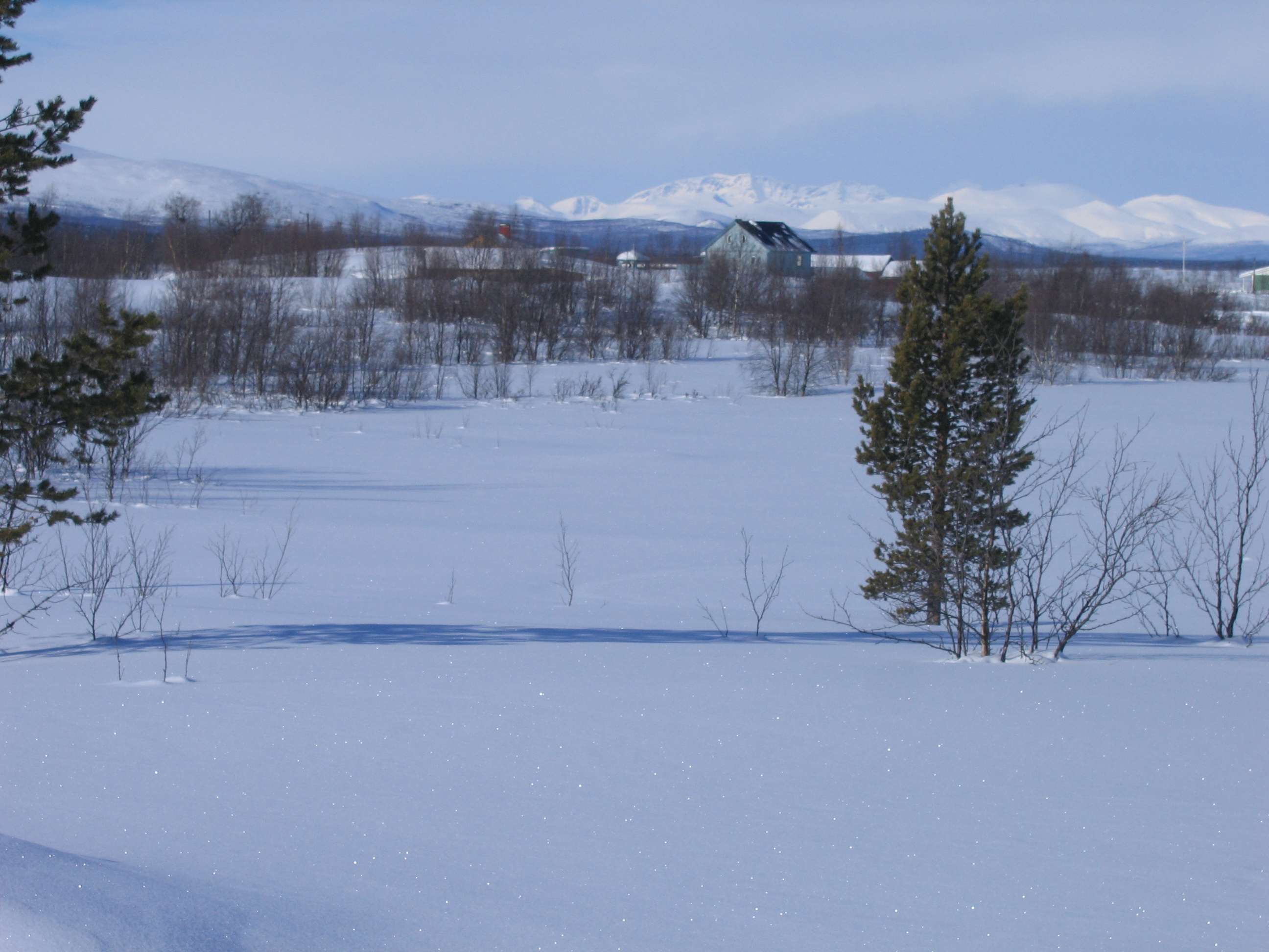 View of Kebnekaise with Jänkänalusta in front.